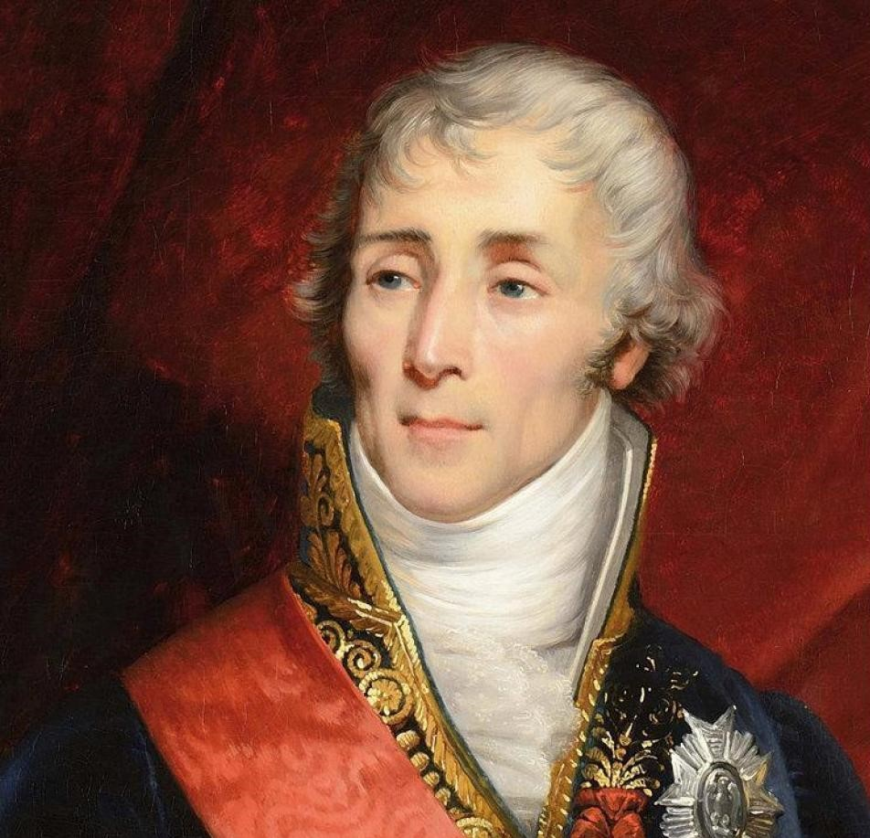 Portrait of Joseph Fouché, Duke of Otranto (1759-1820)